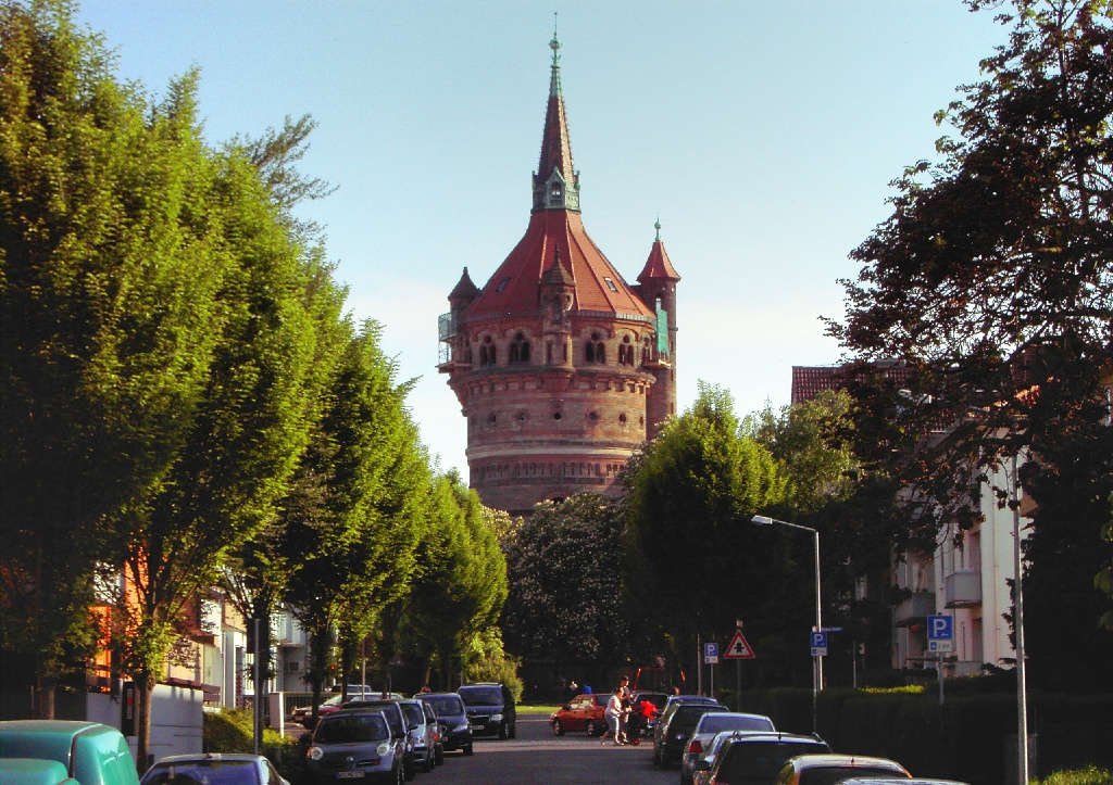 Water Tower Worms